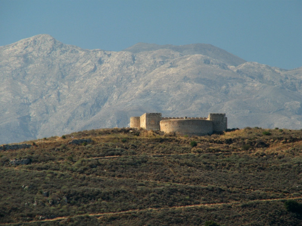 The Ottoman fortress in Aptera (Crete) is located on a hilltop near the ruins of Byzantine Aptera, high above the entrance to Souda Bay. In 1867 (during the Cretan Revolution), in the framework of a program to control Crete from a network of towers, the fortress was constructed by Hussein Avni Pasha, the Turkish governor of Crete.